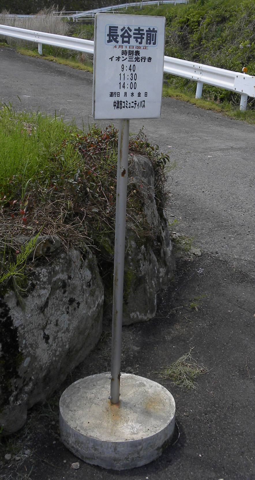 Nakatsu City Community Bus Hase-dera-mae Bus Stop